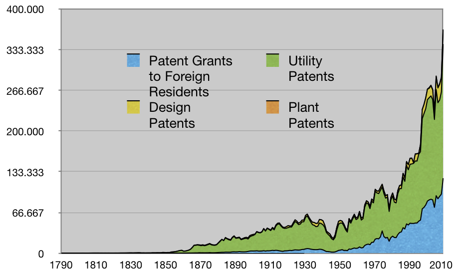 Patents Granted 1790-2010 (divided into utility patents, design patents, plant patents, and patents granted to foreign residents)